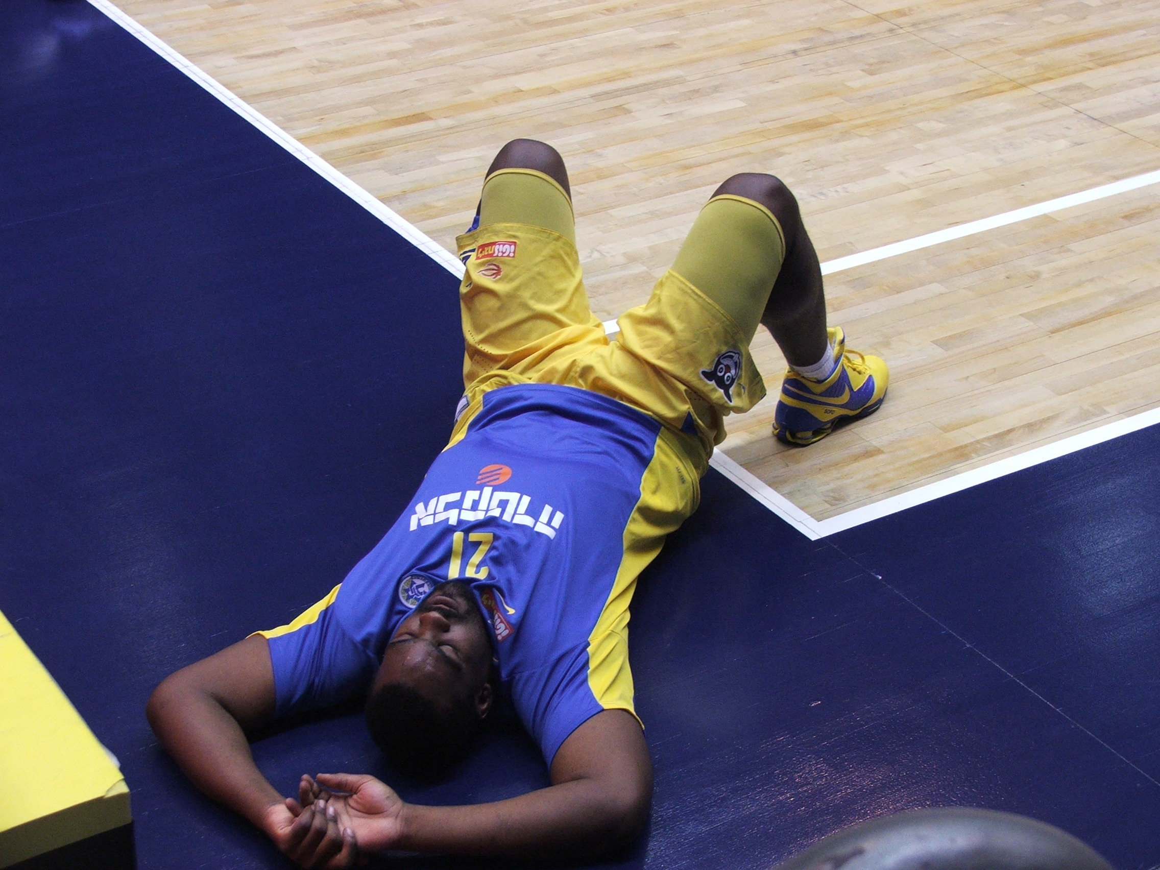 Maccabi Tel Aviv VS. Barak Netanya 31/10/11